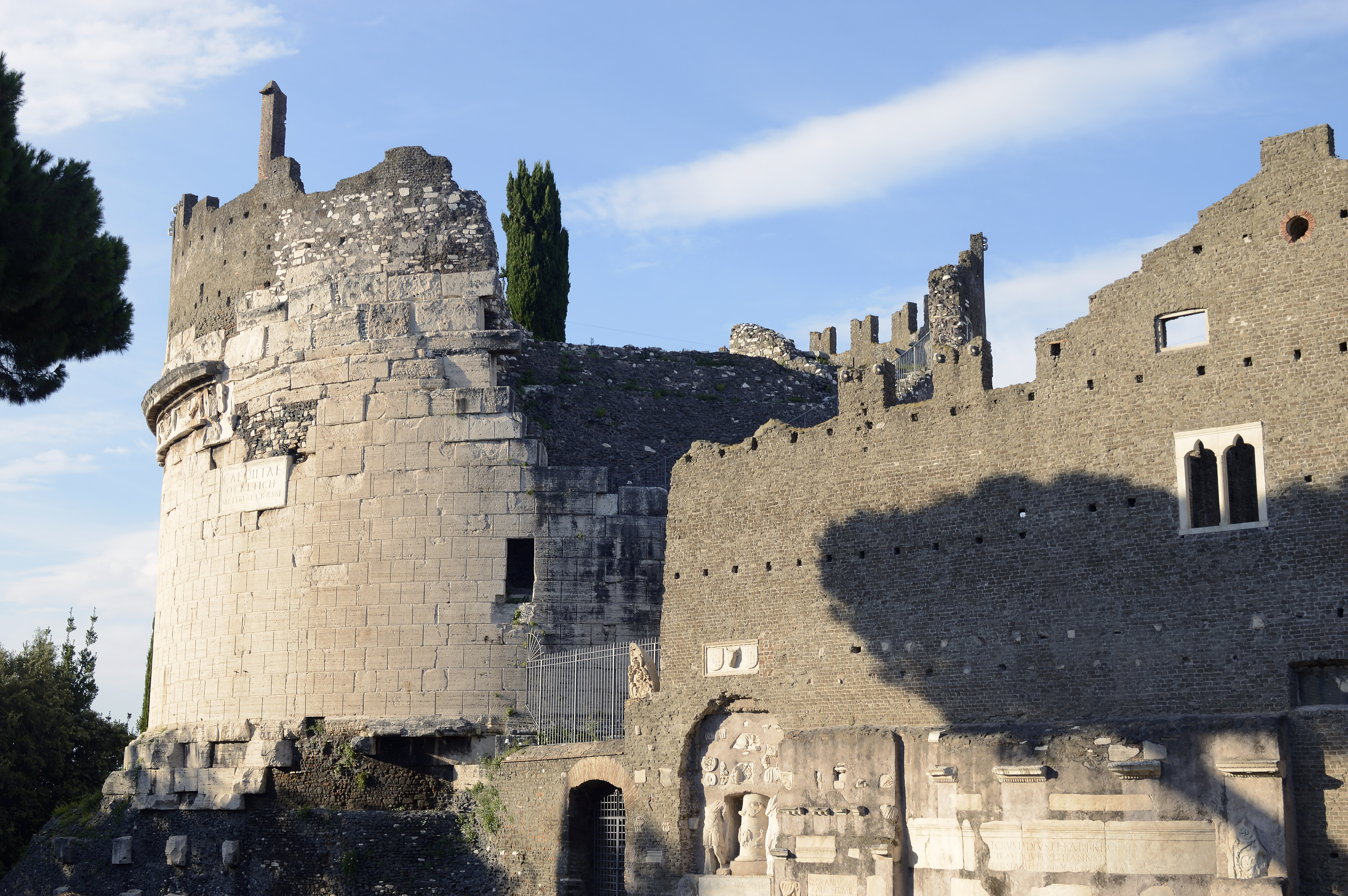 Caecilia Metella tomb and castrum